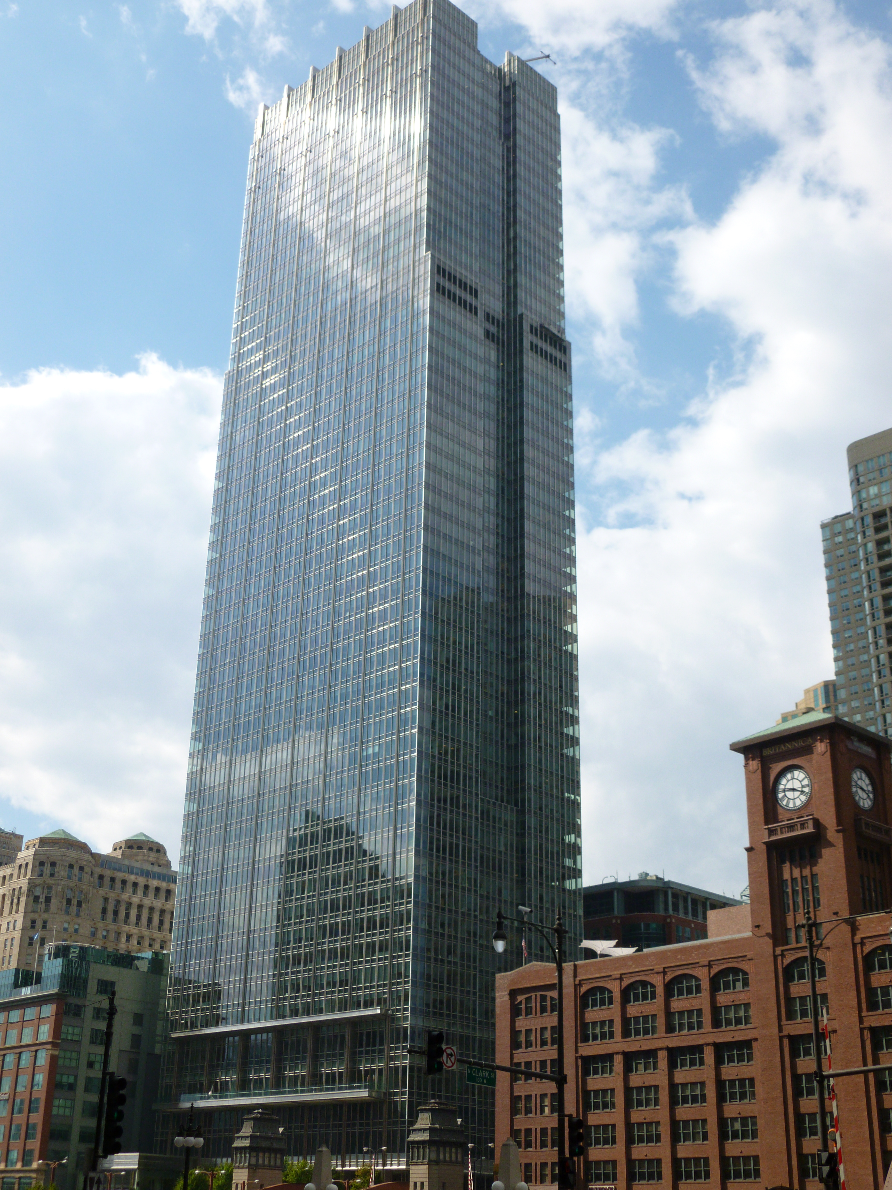 300 North LaSalle in Chicago in Illinois